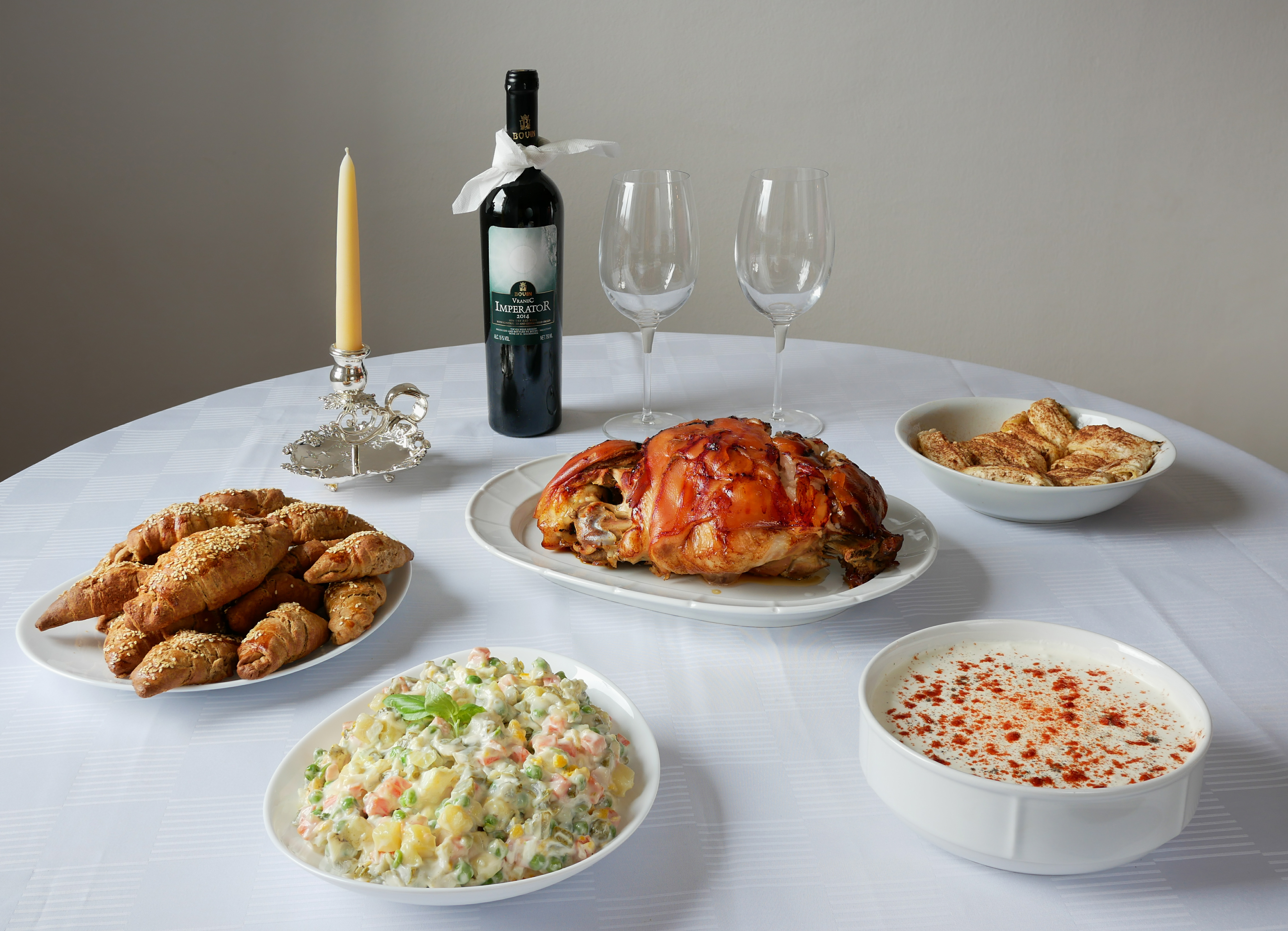 Christmas table (Cuisine of Serbia); grilled pork, Olivier salad (also called Russian salad), tzatziki salad, red wine Vranac, kifli and strudel sweets.